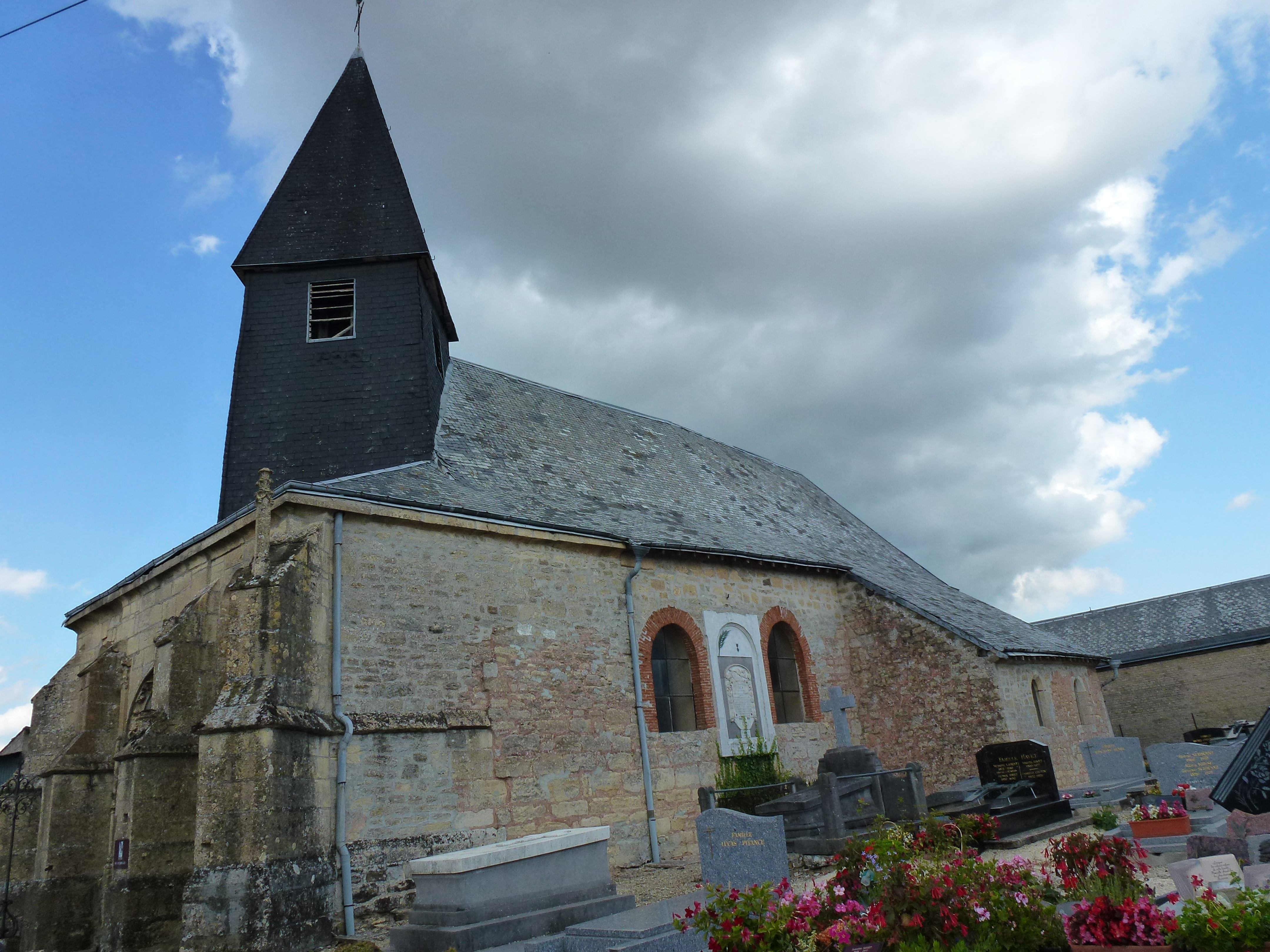 Faux (Ardennes) Église